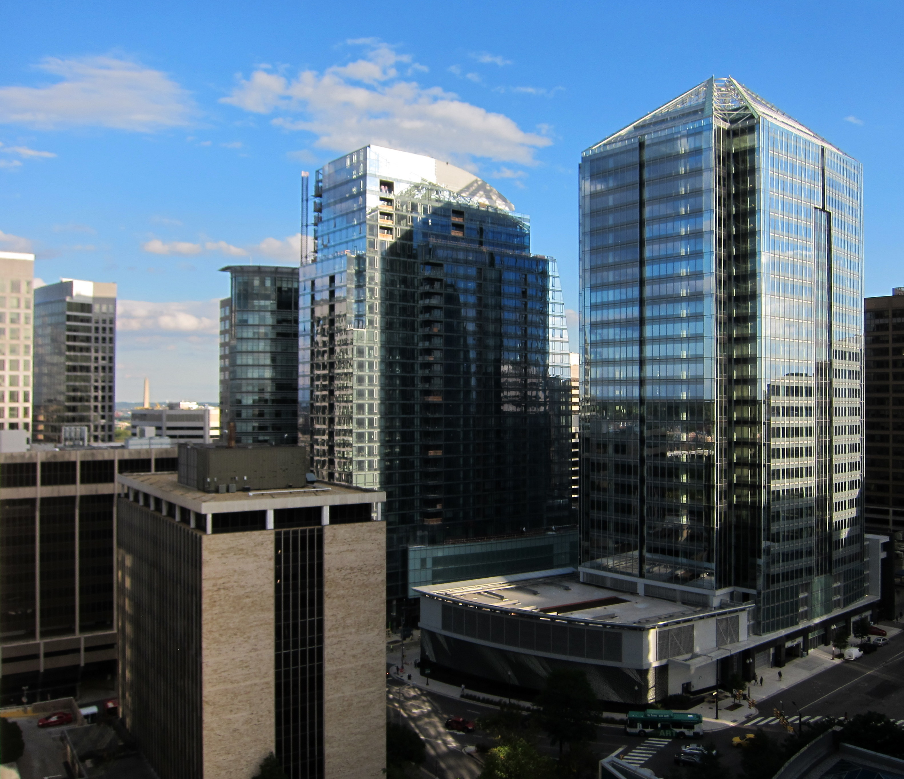 Skyline of Rosslyn, Arlington, Virginia. 1812 North Moore is in the foreground.